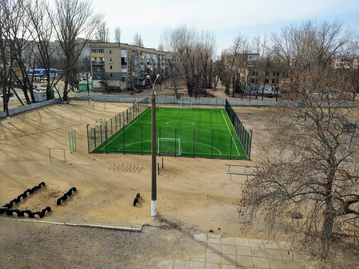 міні футбол у Олеківській спеціалізованій школі І-ІІІ ступенів №4